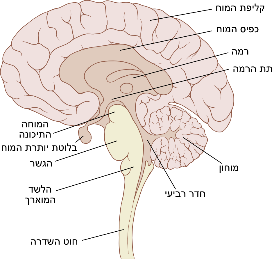 brain sagittal section